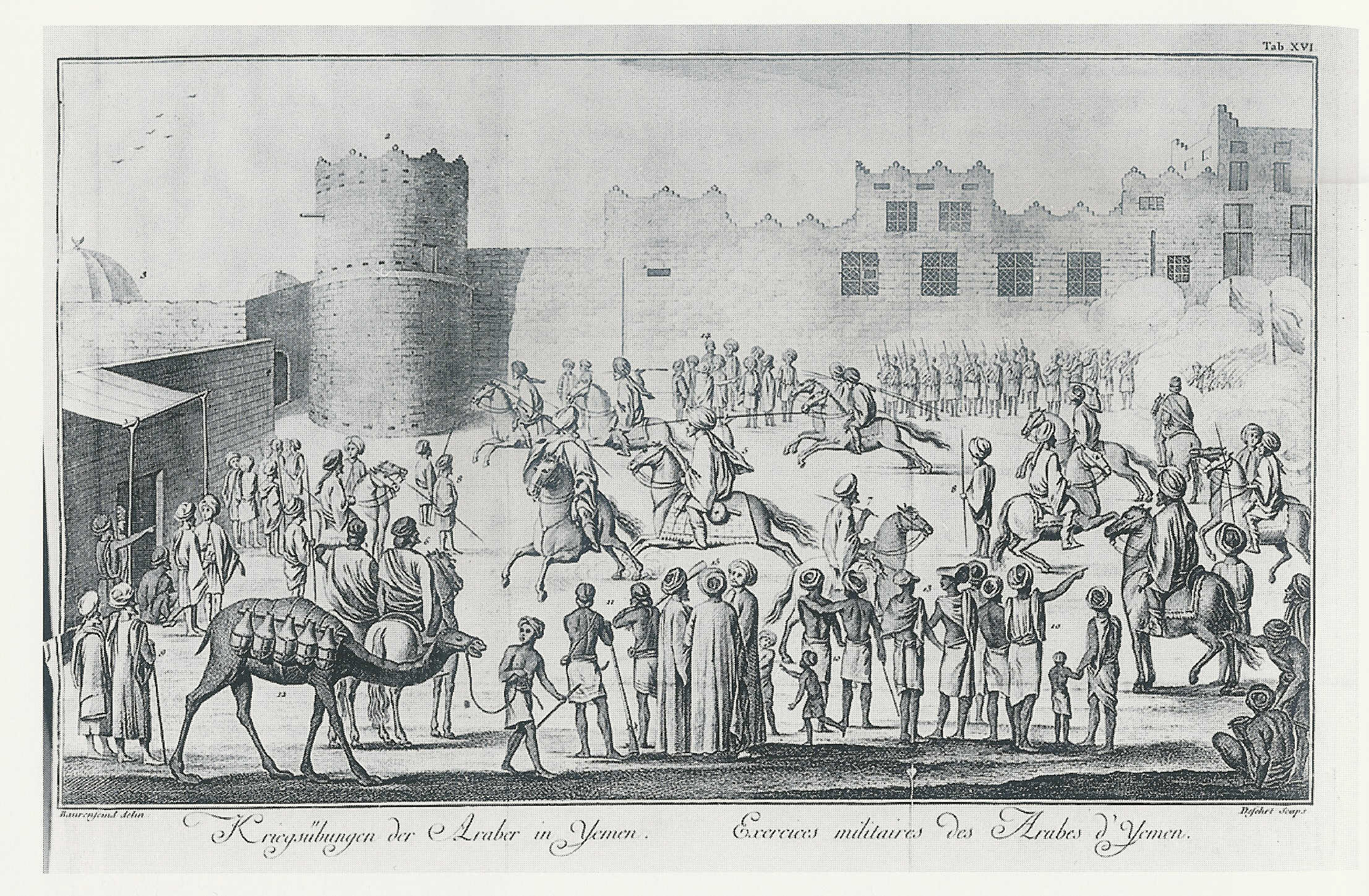 "War Exercises of the Arabs in Yemen", original print from the report of Carsten Niebuhr about his expedition through oriental countries